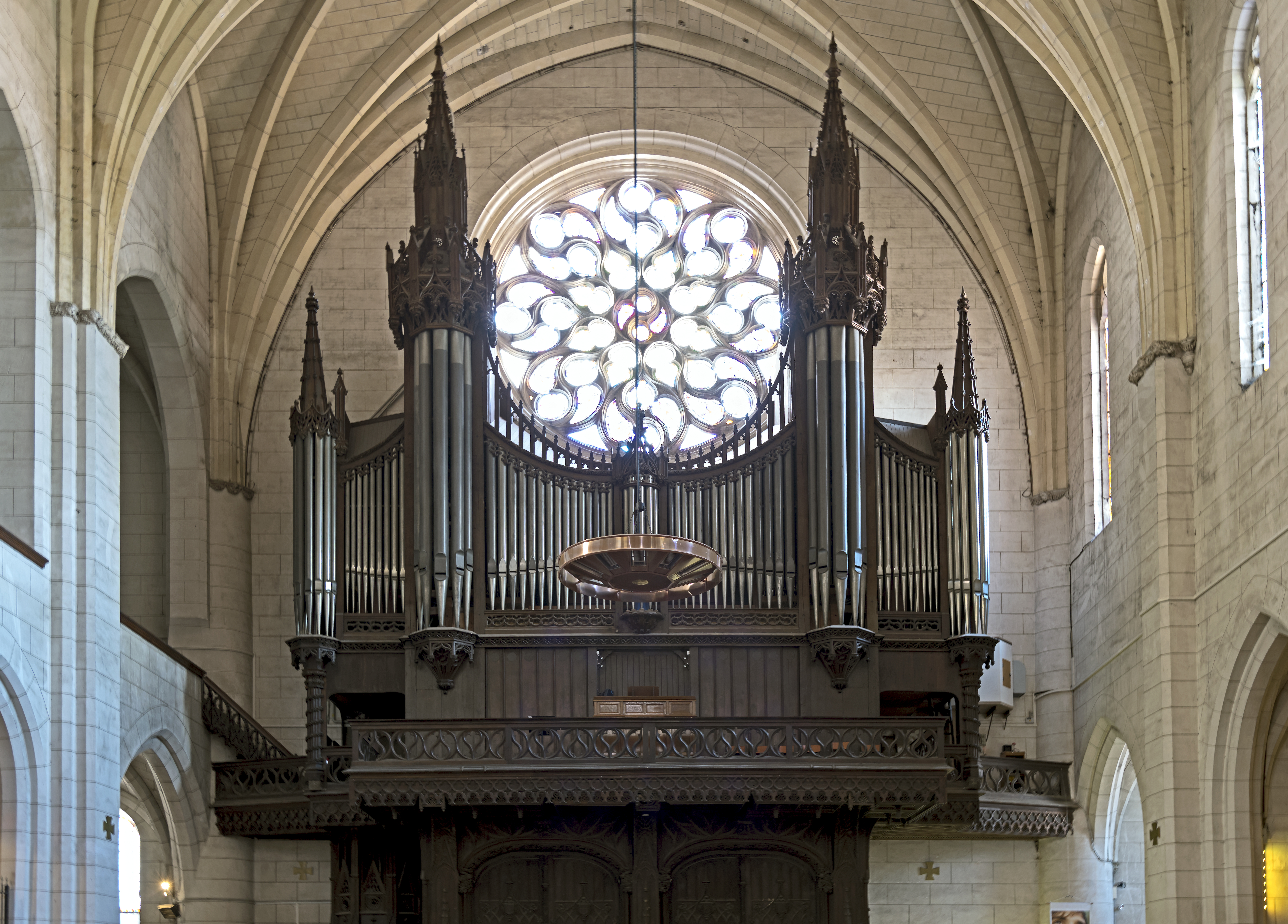 Gallery organ, by Prosper-Antoine Moitessier (organbuilder) 1849, Church Notre-Dame de la Dalbade in Toulouse.